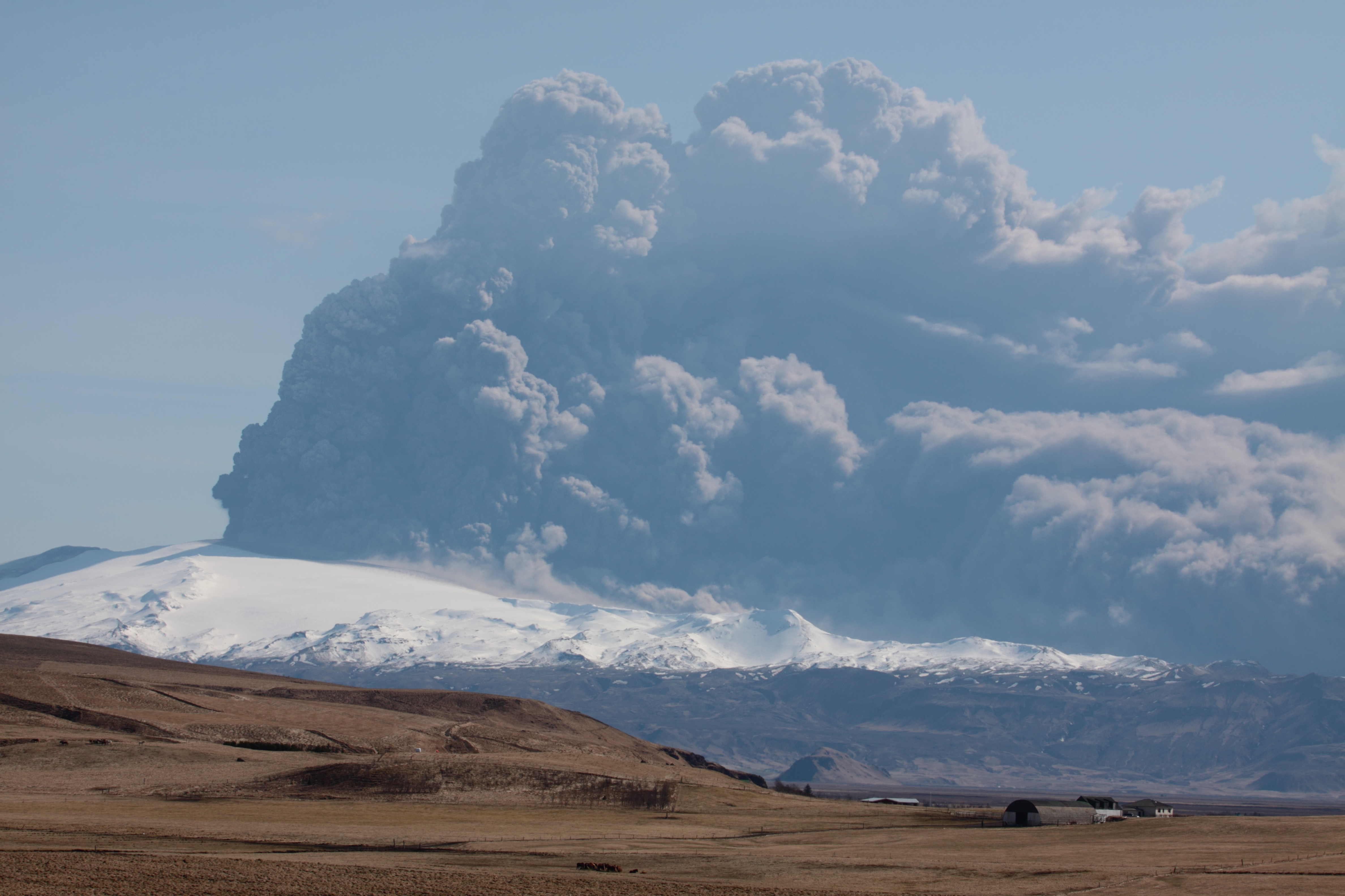 Overlooking the Eyjafjallajökull glacier and the ongoing volcano eruption from Hvolsvöllur on April 17th, 2010.